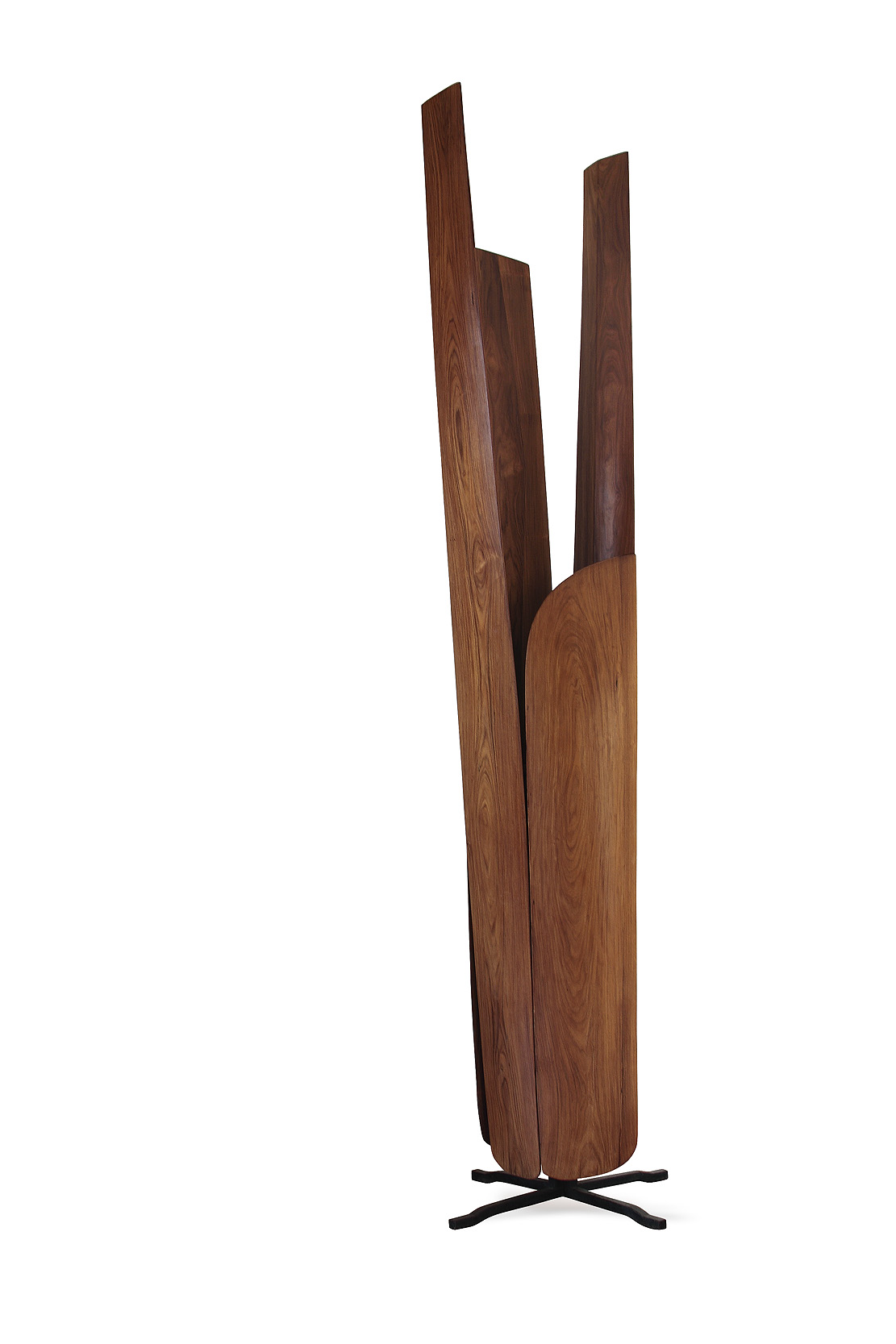 Gustav Ritter. Lascas. Pau-brasil